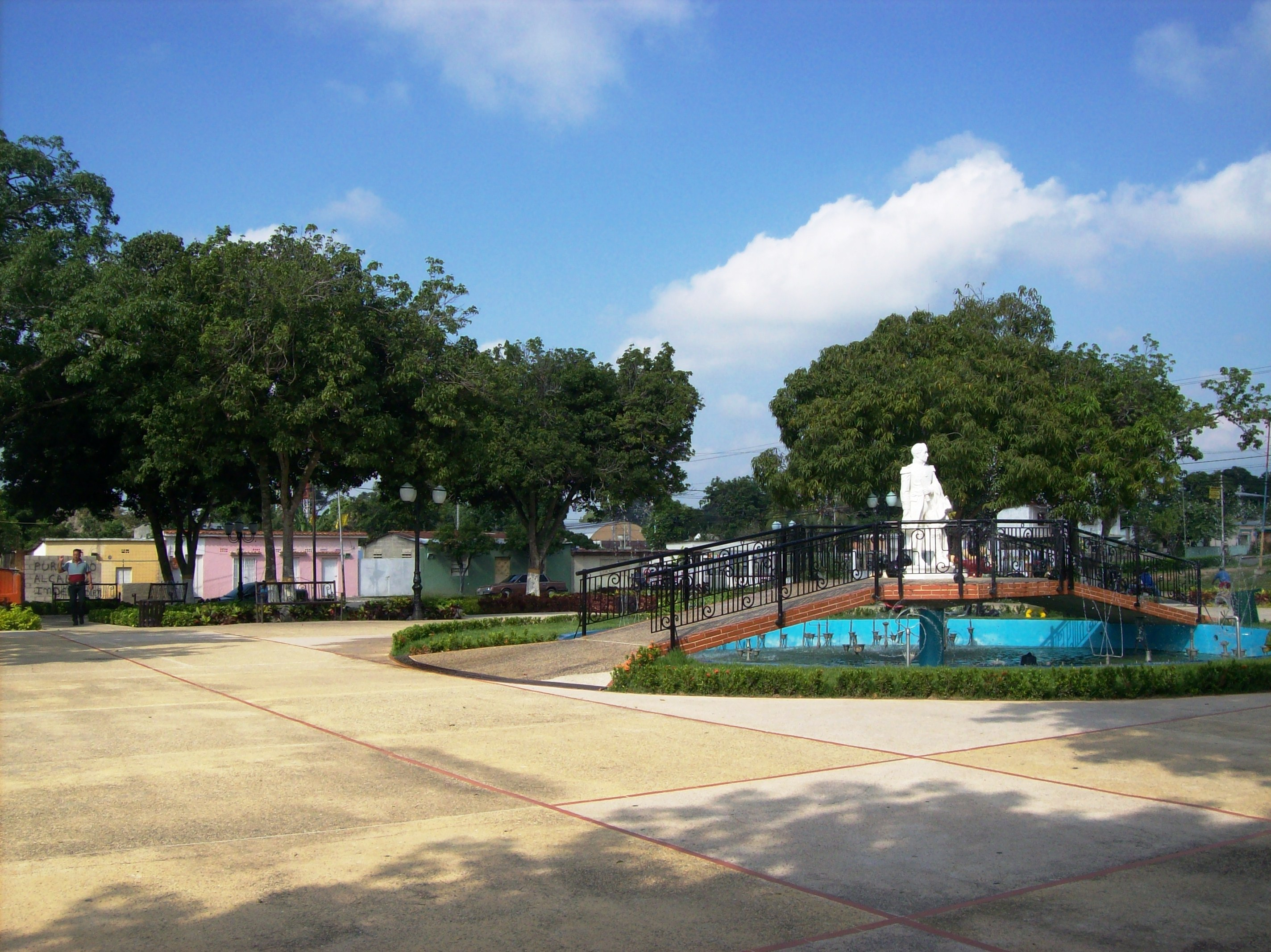 square Bolívar of Boraure, Capital of the Municipality La Trinidad, Yaracuy state. Venezuela